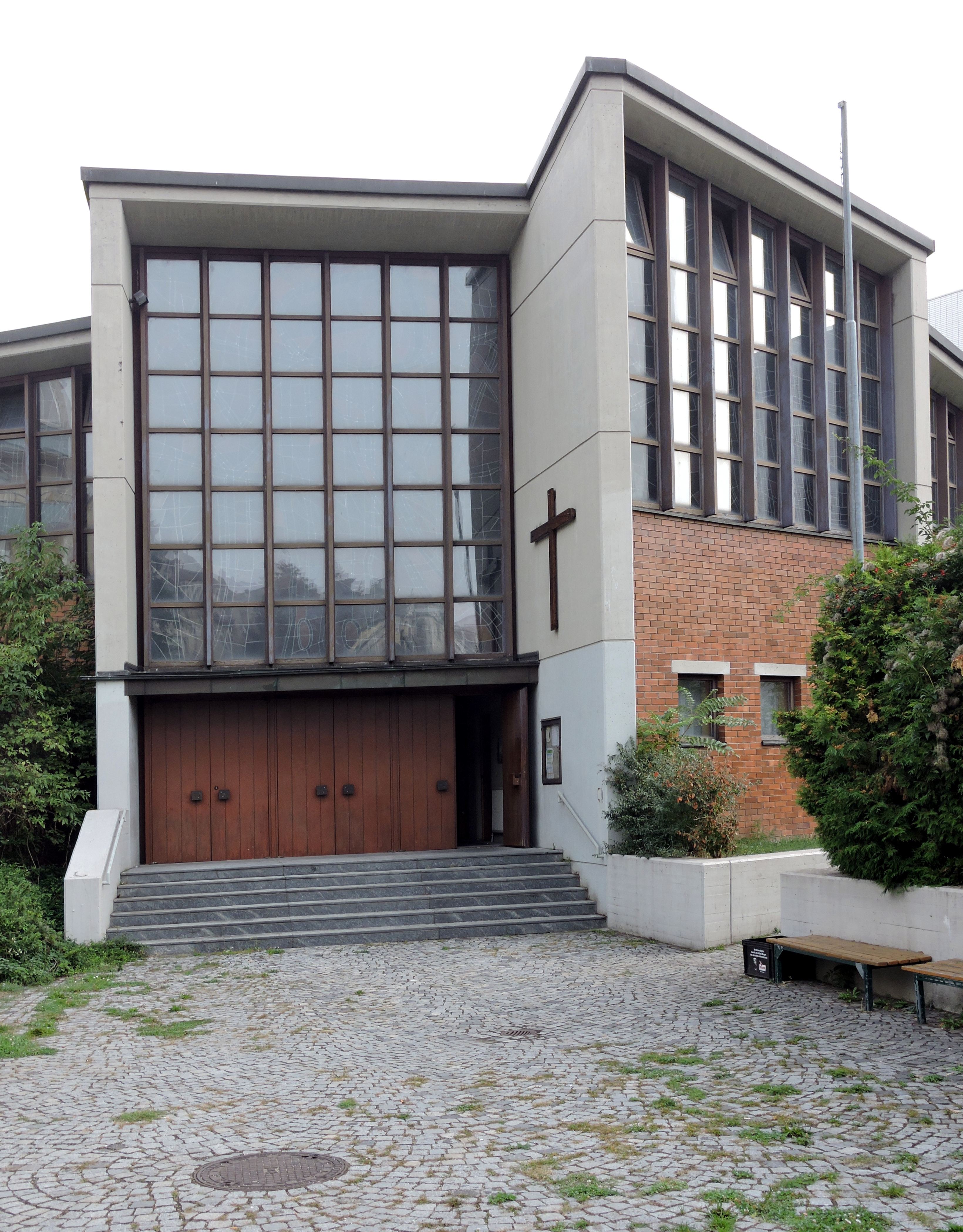 Parish church "Zum göttlichen Erlöser" in 1200 Vienna, Brigittenau